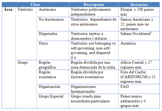 class and instance